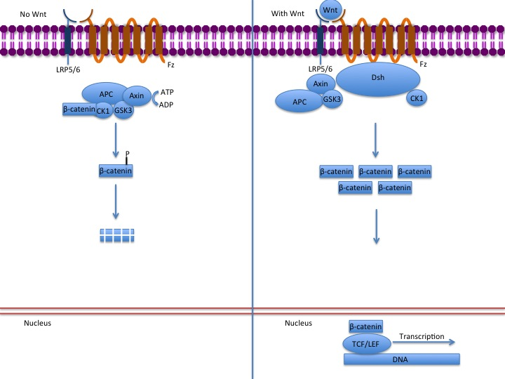 Diagram of the canonical Wnt pathway in the presence and absence of Wnt.